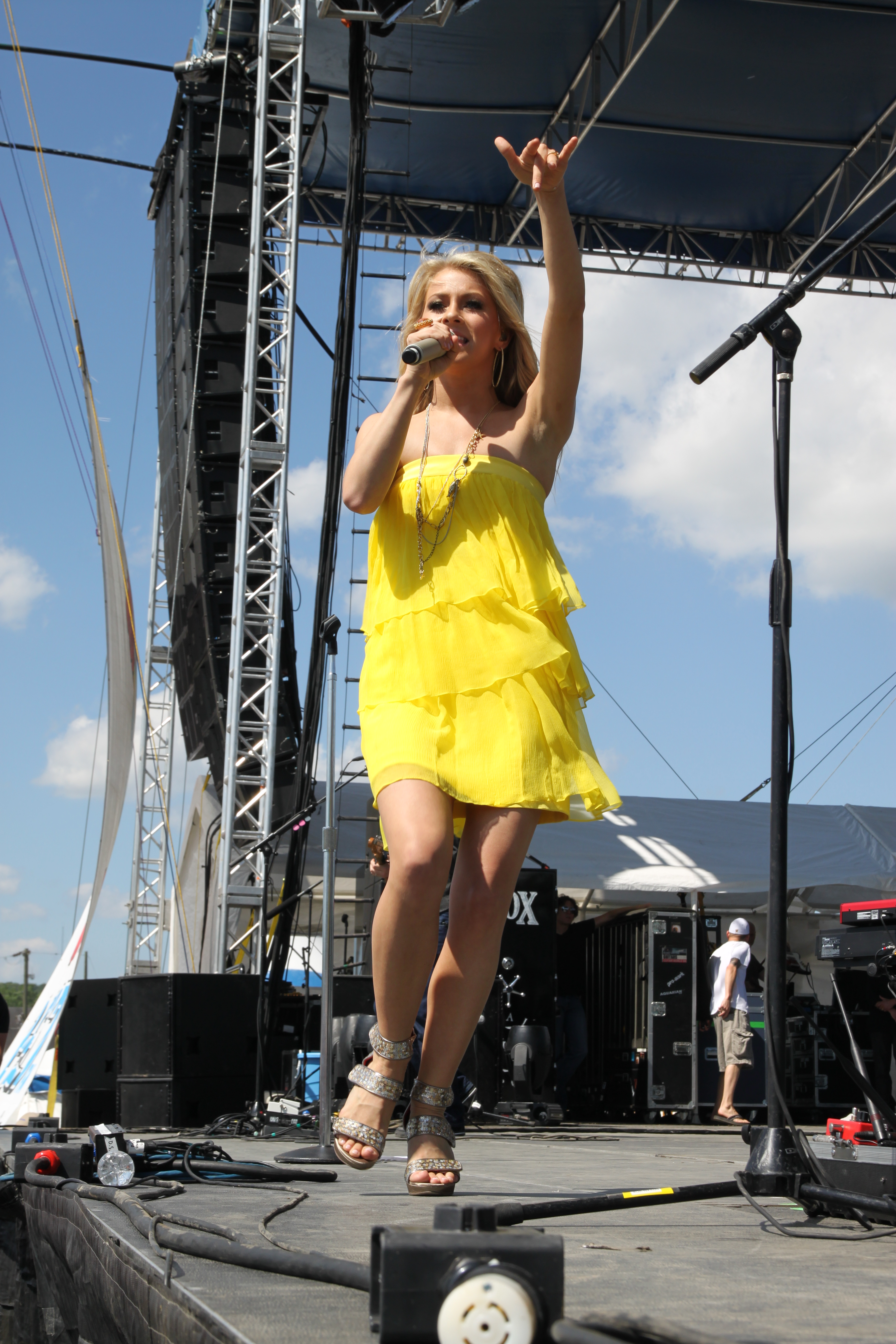 Julianne Hough performing at a 2009 Birthday Bash concert. Photographed with a Canon EOS Rebel T1i.